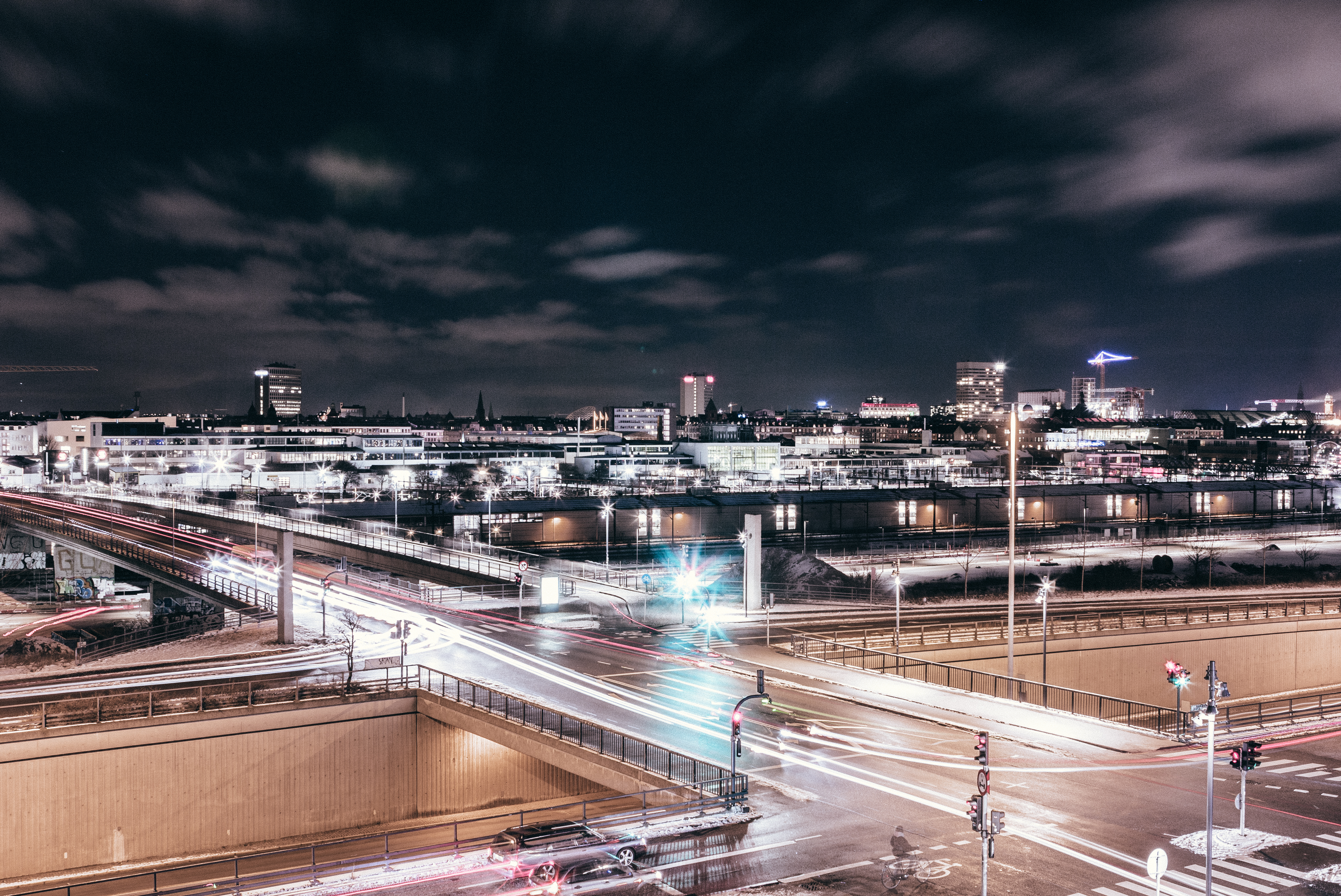 Copenhagen, Denmark